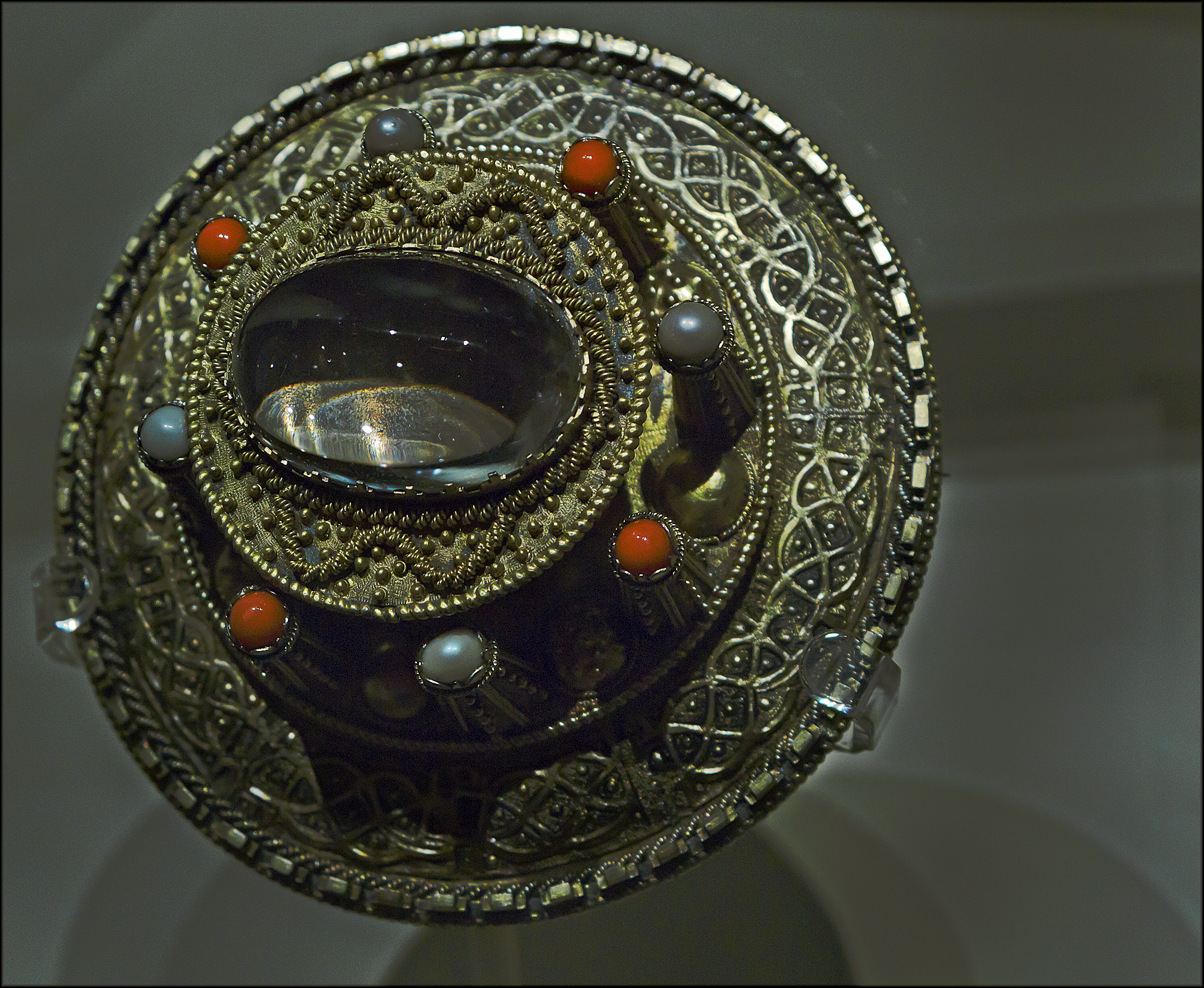 National Museum of Scotland A copy (by the electrotyping, or galvanoplasty method) of an elaborate 16th century, West Highland brooch, which would also contain a tiny relic of a saint in a small compartment behind the central crystal. The eight pillars are tipped with pearls and coral.